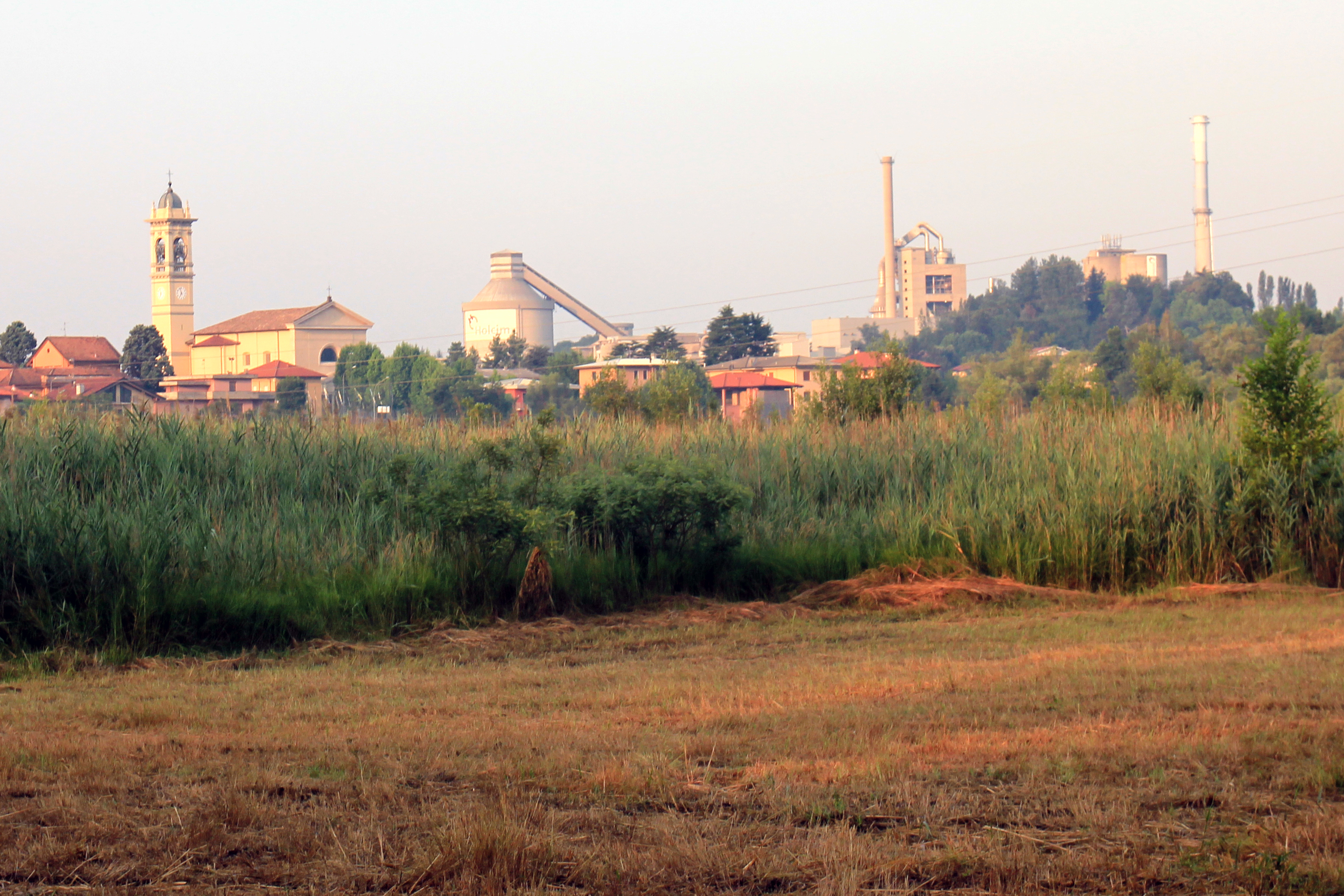 Church and plant